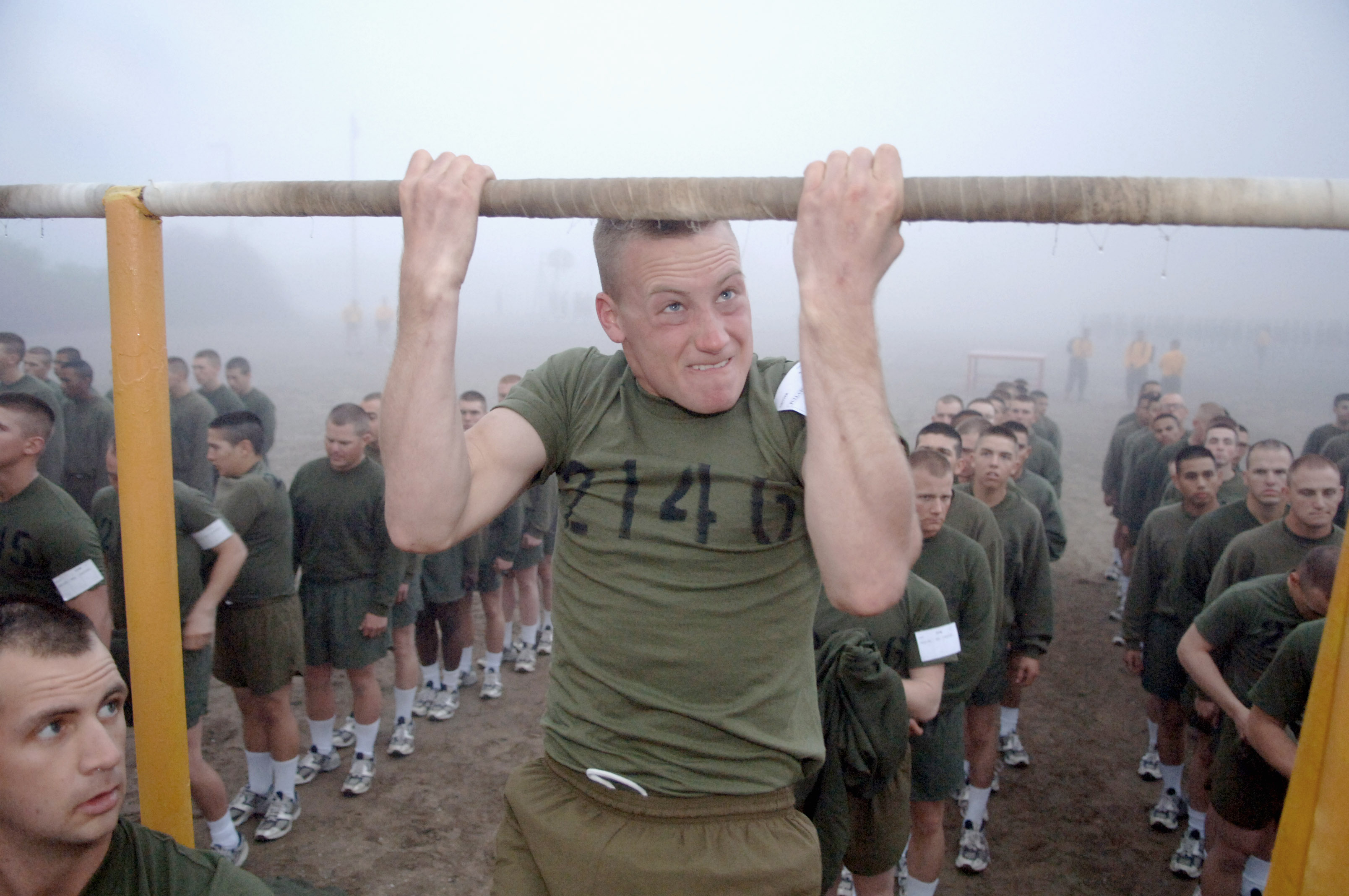 MARINE CORPS RECRUIT DEPOT SAN DIEGO - Pfc. Cory J. Gritter, Platoon 2146, Golf Company, grits his teeth while struggling to get his last pull-up. Each pull-up a recruit completes adds 5 points to a his overall PFT score.